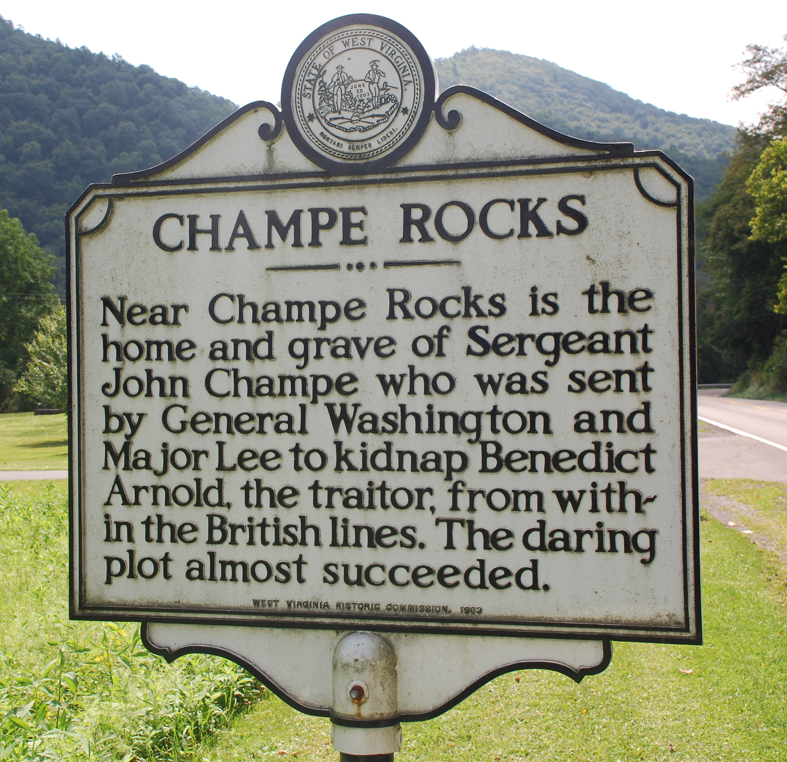 Historical Marker on route 55 - Champe Rocks. Text: "CHAMPE ROCKS. Near Champe Rocks is the home and grave of Sergeant John Champe who was sent by General Washington and Major Lee to kidnap Benedict Arnold the traitor from within the British lines. The daring plot almost succeeded."